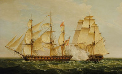 HMS Pearl and Santa Monica, Azores, September 1779. La Santa Monica had been built at Cartagena during 1777.